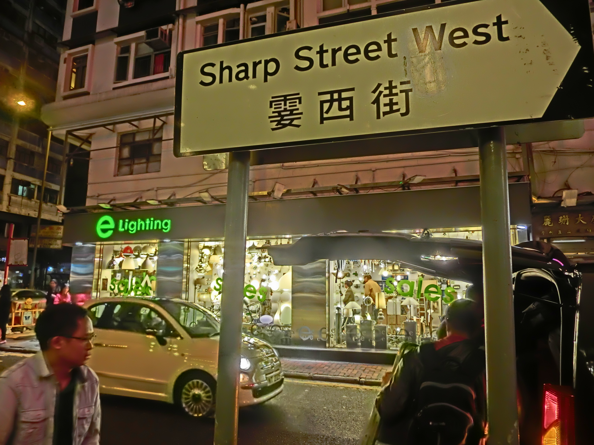 灣仔 霎西街, Sharp Street West, Wan Chai, Hong Kong